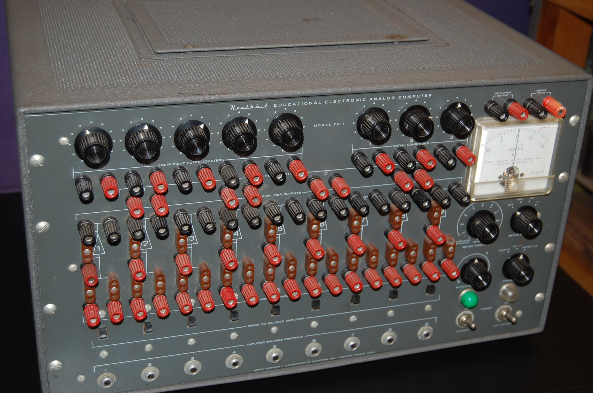 Heathkit Analog Computer